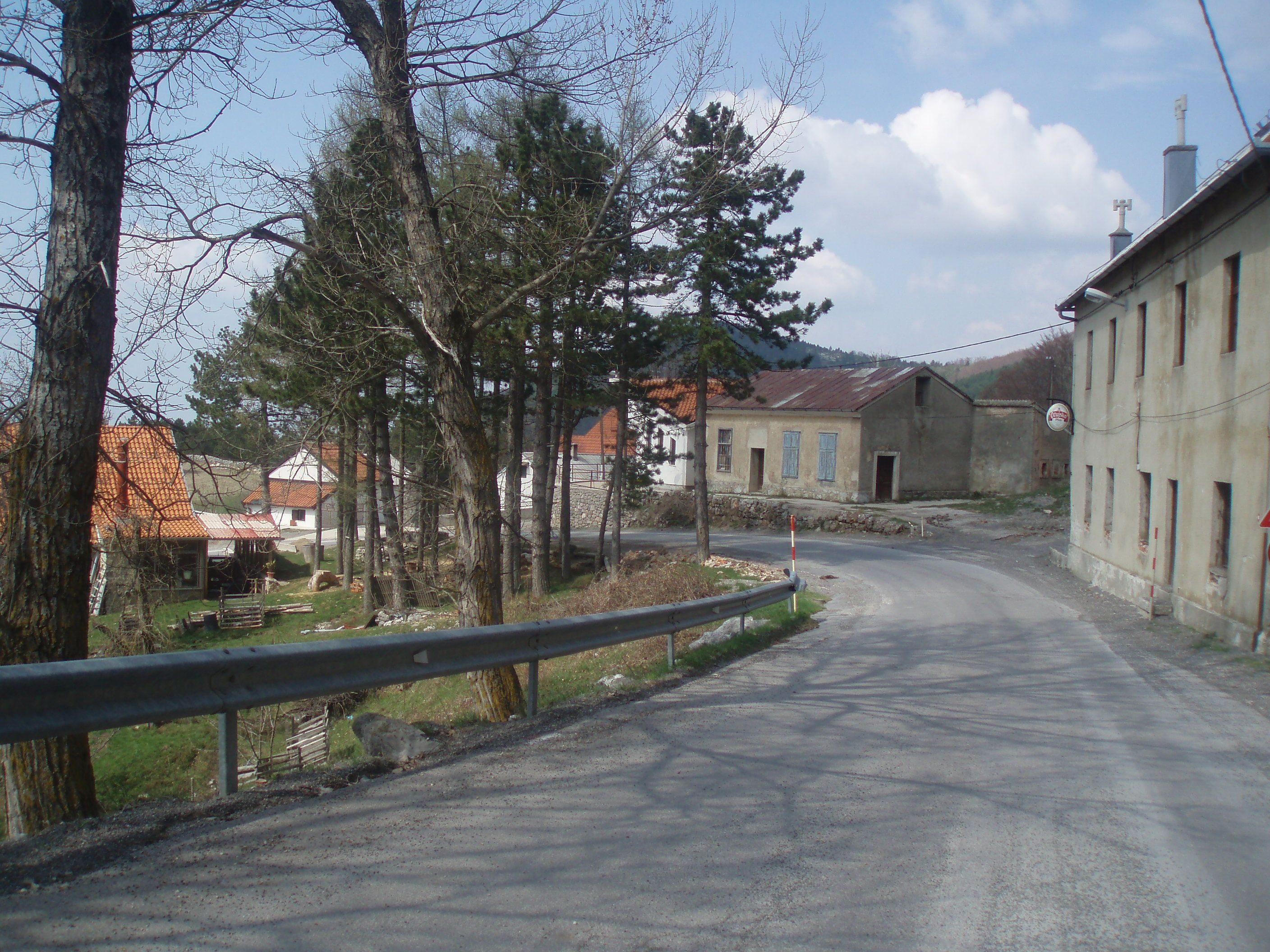 Oltari, north Velebit, Lika-Senj County, Croatia